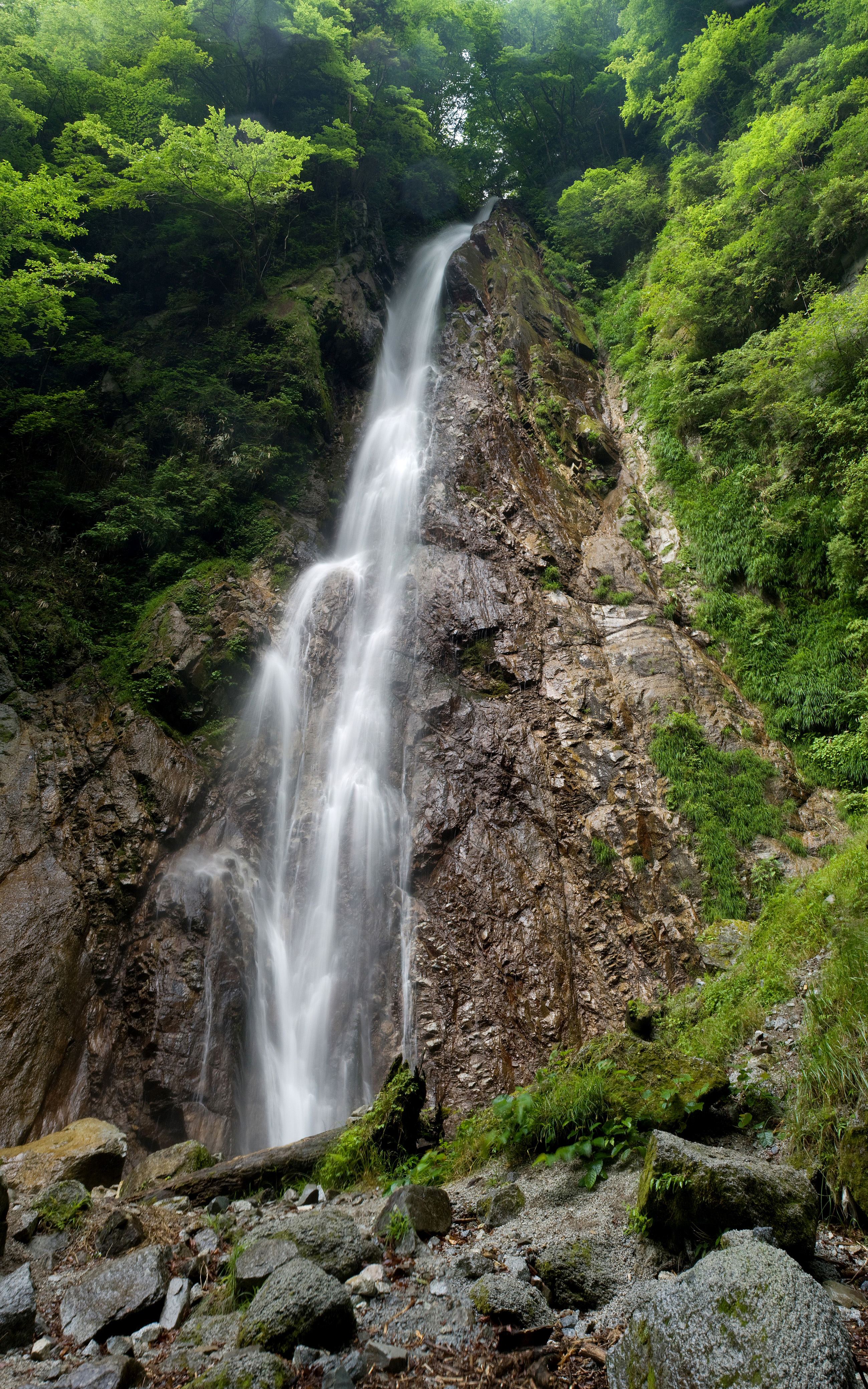 Hondana-Falls at Mts.Tanzawa, Kanagawa, Japan.